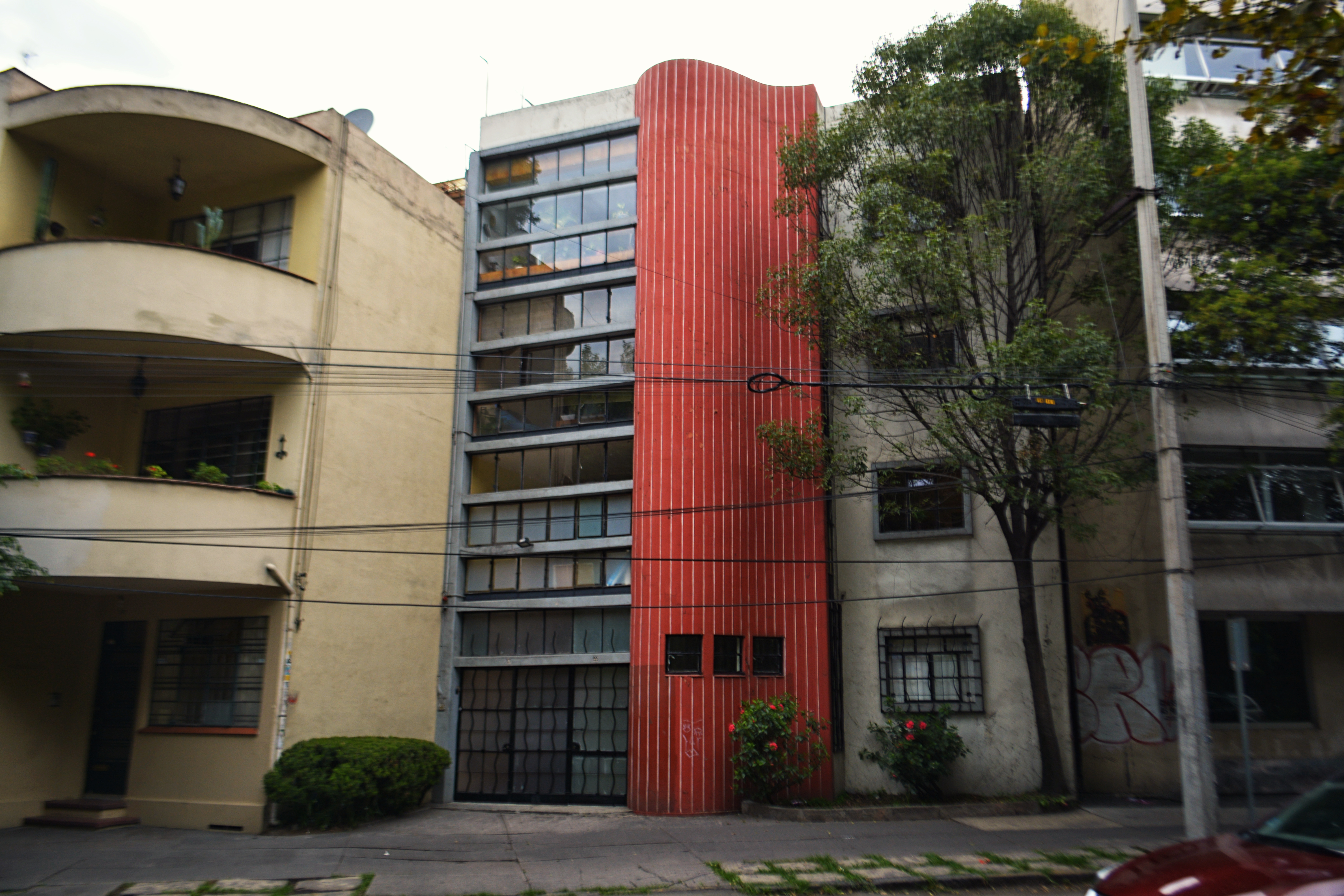 Parque España 55 by Mexican architect Mario Pani Parque España (Spain Park), Mexico City.